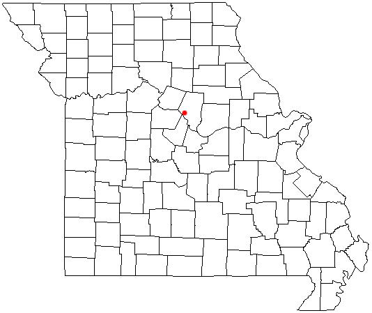 Huntsdale, Missouri location map; created with the GIMP. Made by User:Acntx.